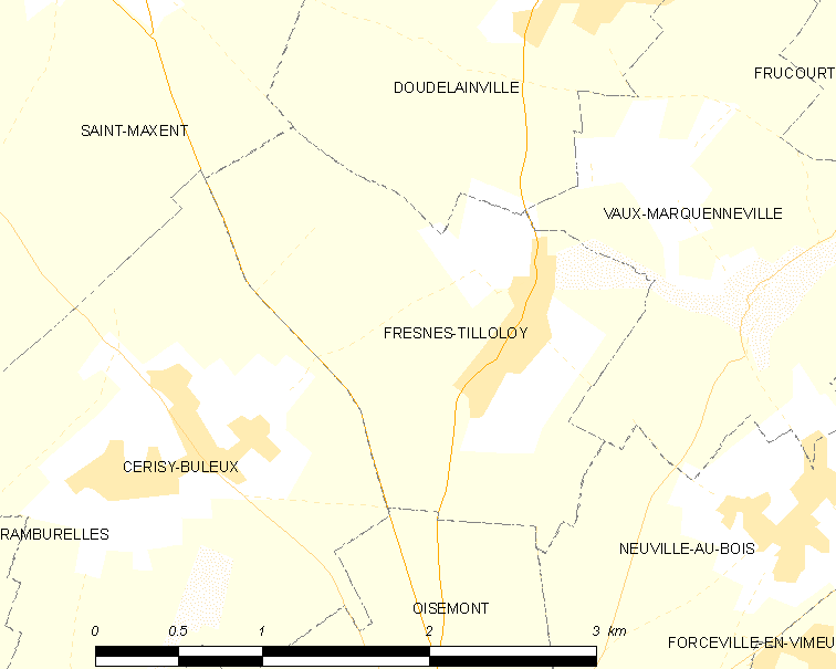 Map of French municipality Fresnes-Tilloloy